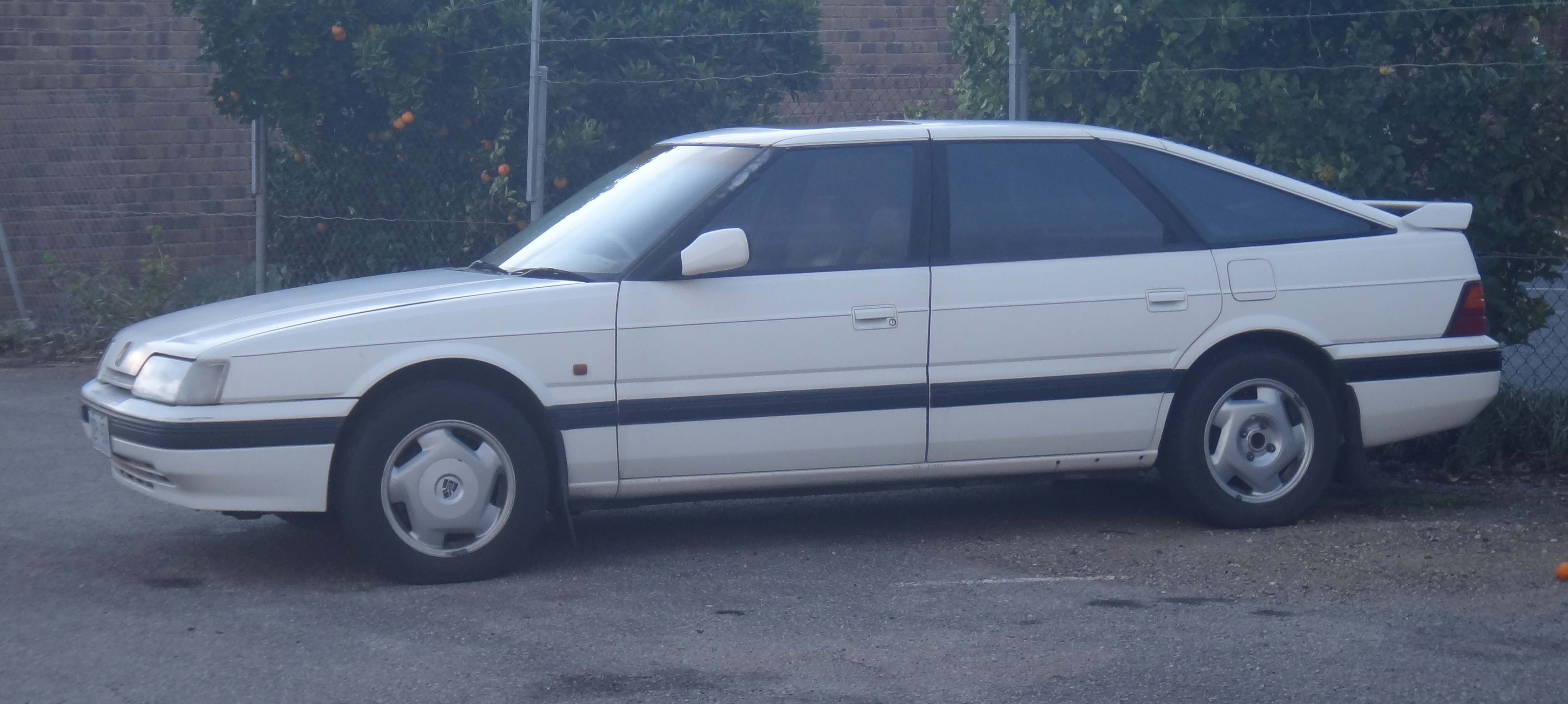 Came across this beast also today, just sitting there in a locked yard. These really are very rare sight in Australia, so it was nice to catch this one. Not sure if it's in working order though or of it's been sitting here for a while?